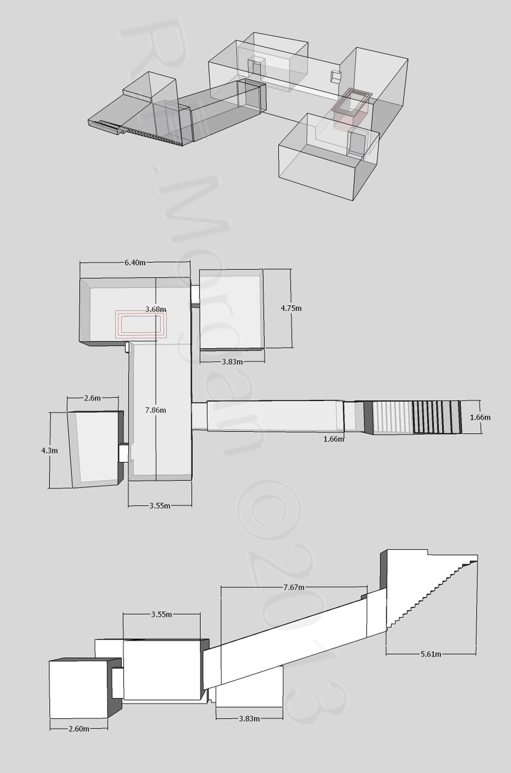 Isometric, plan and elevation images of KV62 taken from a 3d model